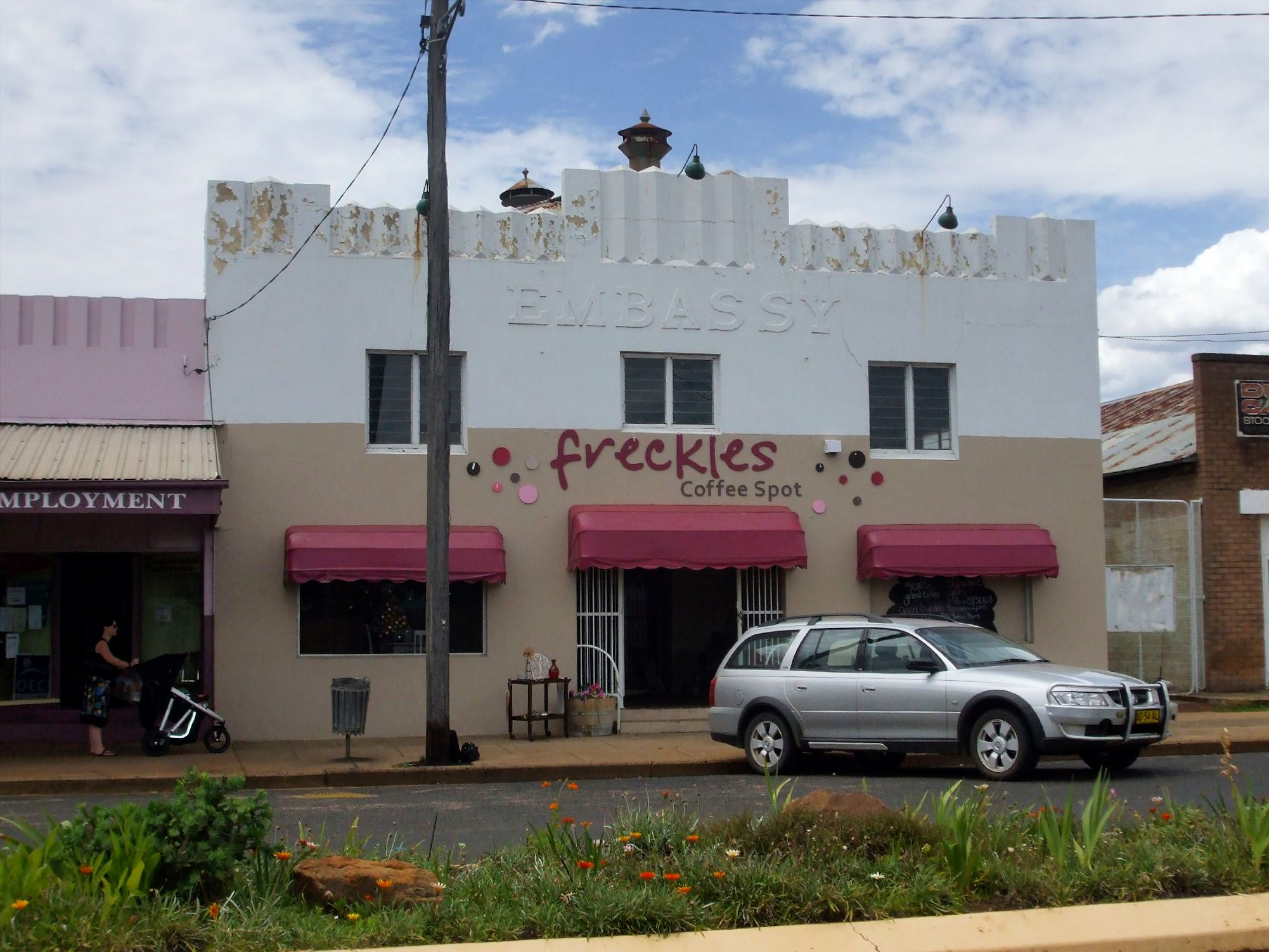 Freckles Coffee Spot at Baradine, New South Wales, located in the former Embassy Theatre